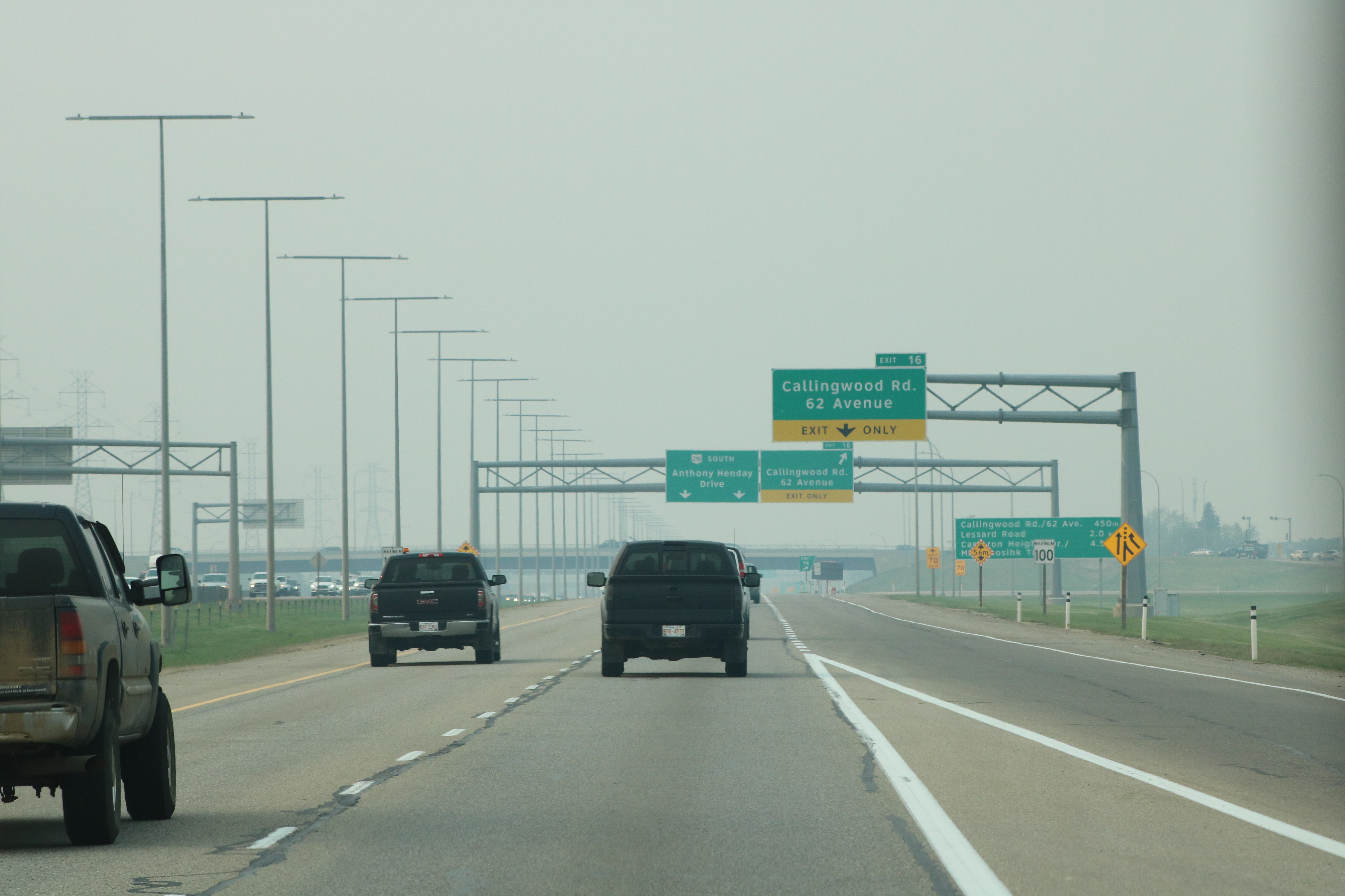 Anthony Henday Drive south approaching exit 16 with Callingwood Road. The grey skies are due to haze from the w:2019 Alberta wildfires.